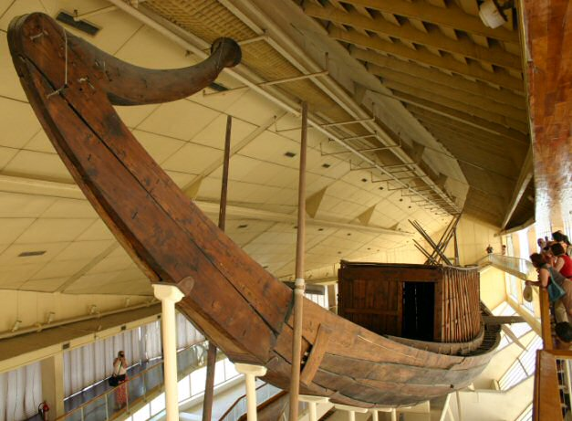 Solar bark of Kheops. General view. Image taken by Alex Lbh in April 2005.